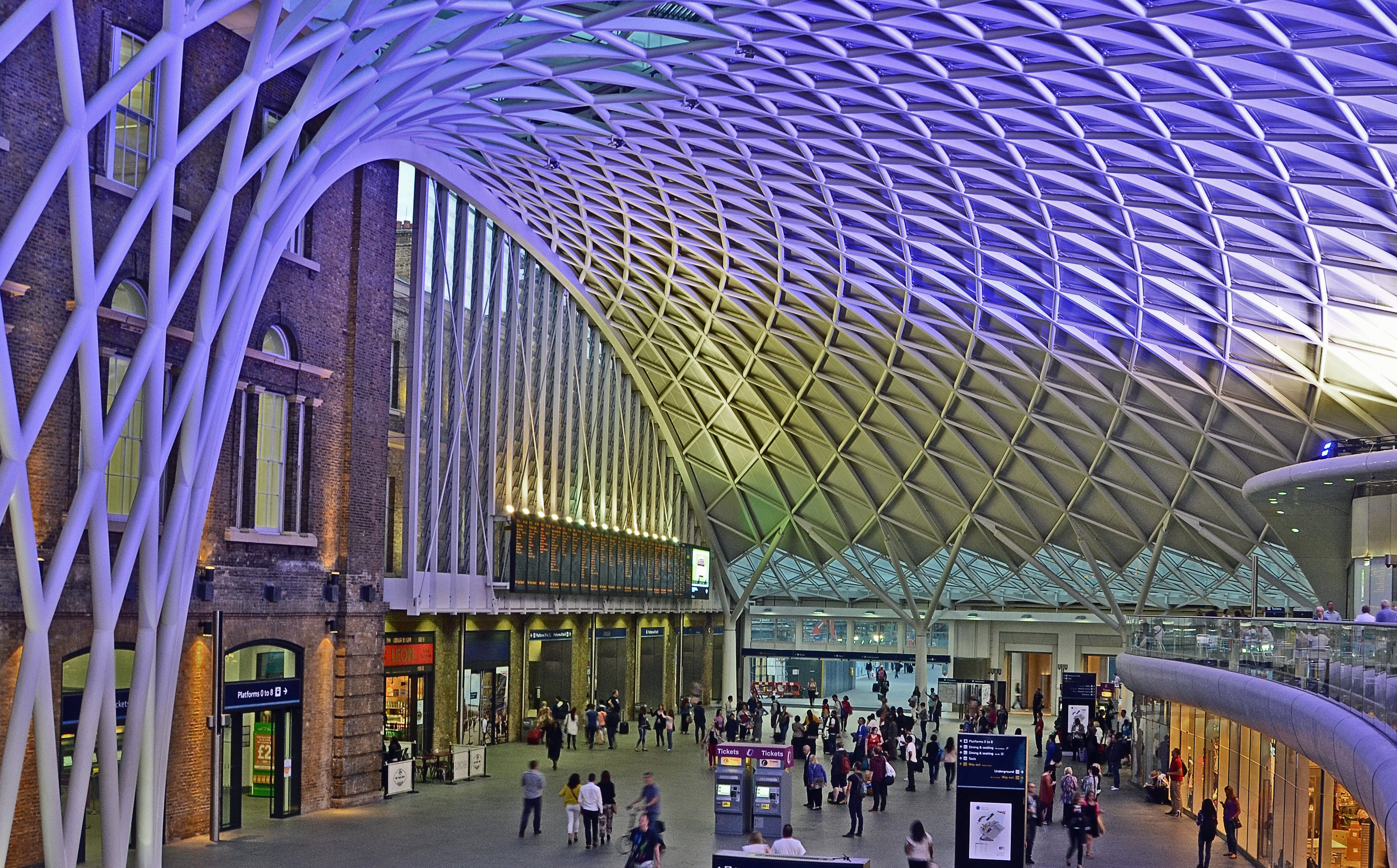 In vivid purple.